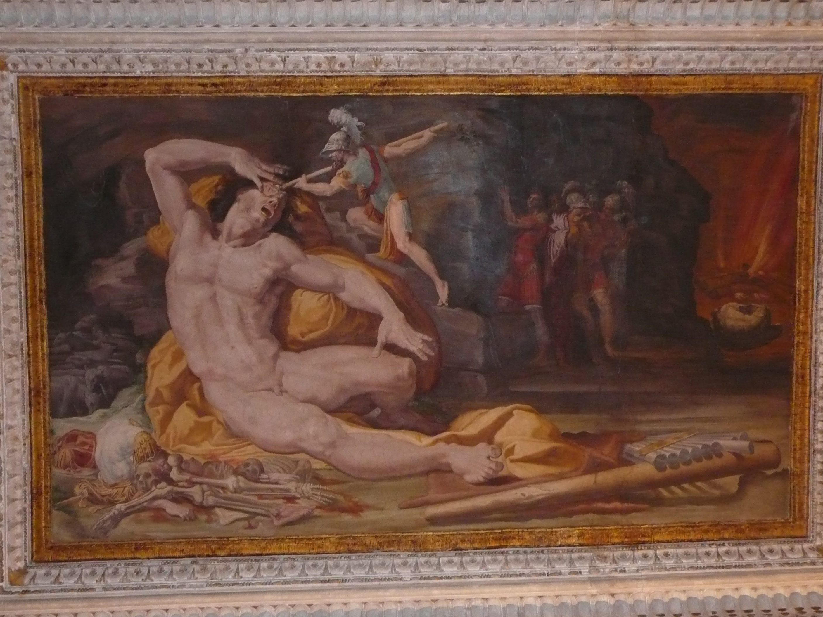 Story of Ulysses